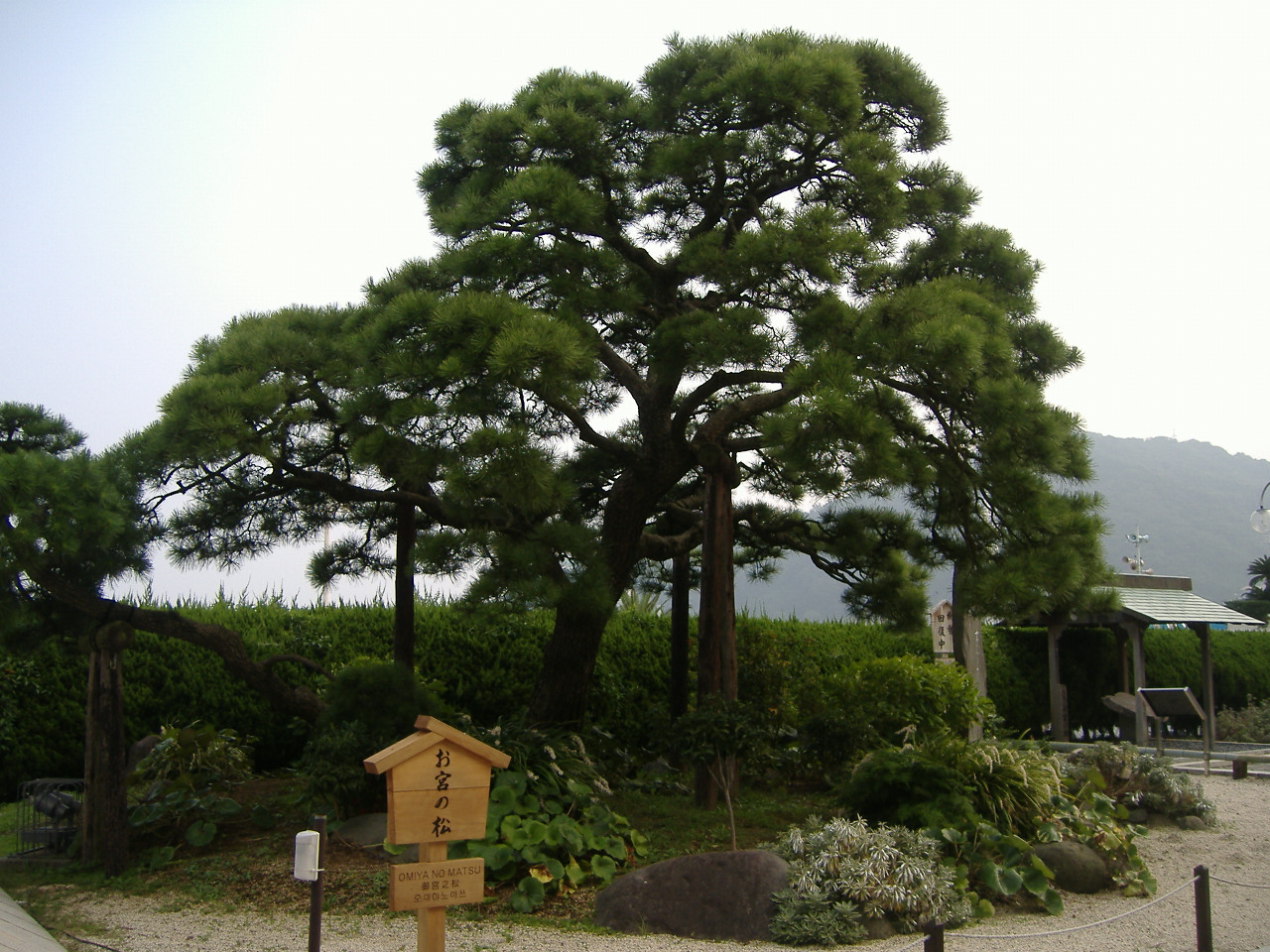 Famous Pine Tree "Omiya-no-matsu" (Atami, Japan)